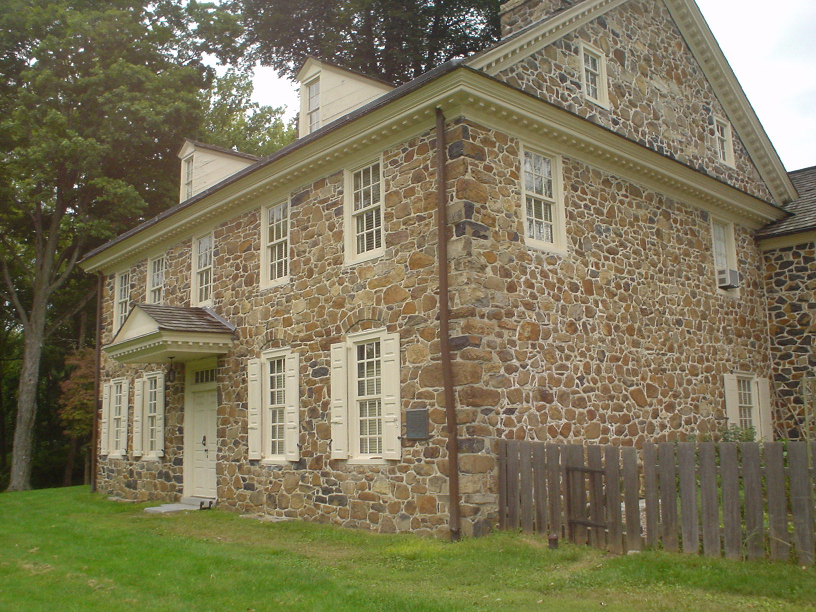 Waynesborough home of Mad Anthony Wayne, near Paoli, PA Taken by myself and donated to the Public Domain